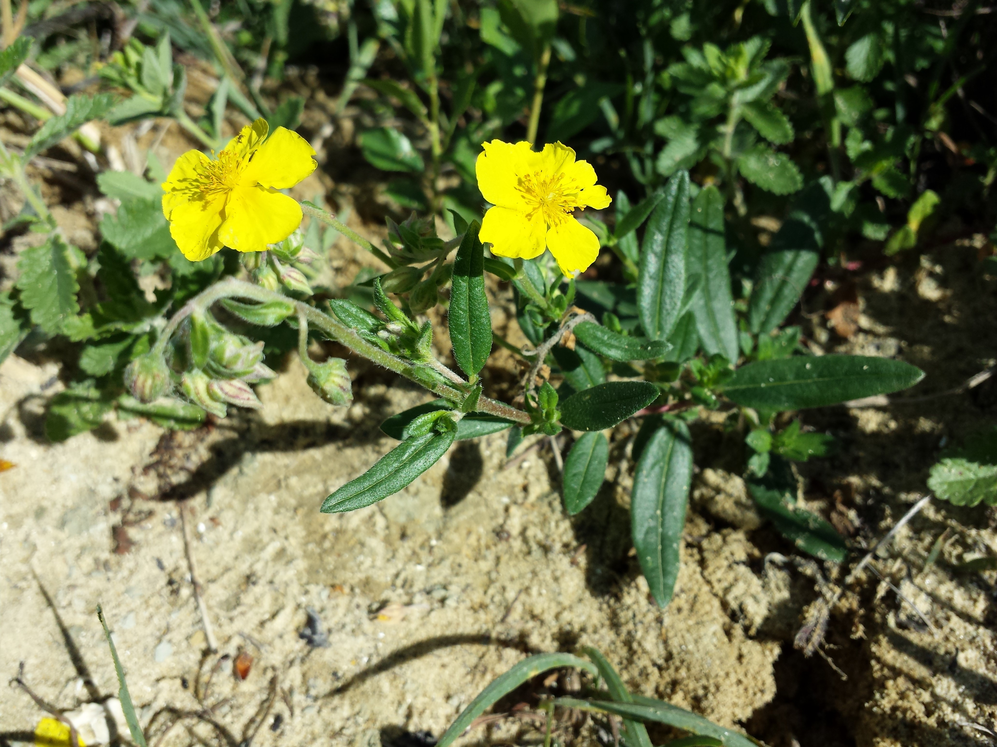 Habitus Taxon: Helianthemum nummularium subsp. obscurum (sensu Fischer et al. EfÖLS 2008 ISBN 978-3-85474-187-9) Location: Haulesbergen, Ulrichskirchen-Schleinbach, district Mistelbach, Lower Austria - ca. 200 m a.s.l. Habitat: dry grassland over Loess